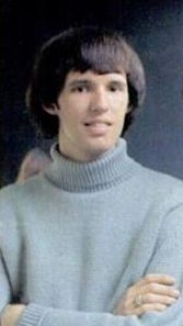 Gary Walker (1965)